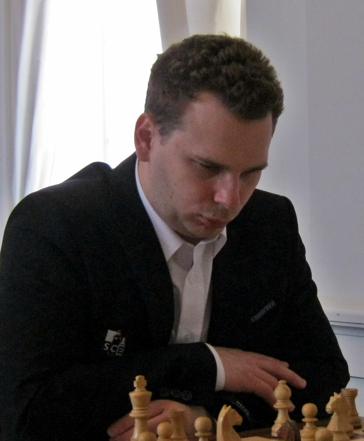 Péter Ács, chess grandmaster from Hungary